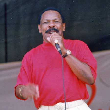 Lloyd Price at the New Orleans Jazz & Heritage Festival